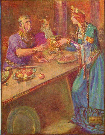 an illustration of Wealhtheow from the epic of Beowulf